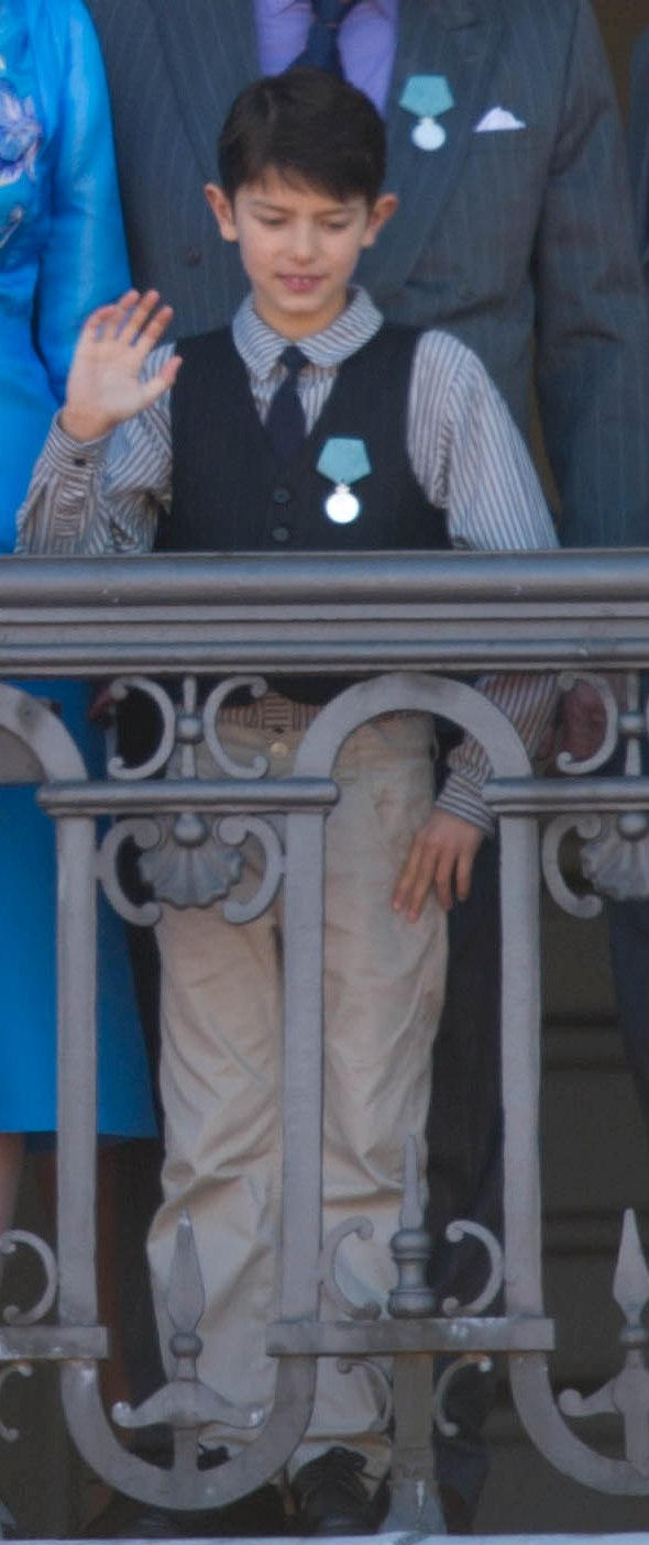 Picture showing the Royal Family of Denmark during Queen Margrethe II 70th birthday, 16 April 2010